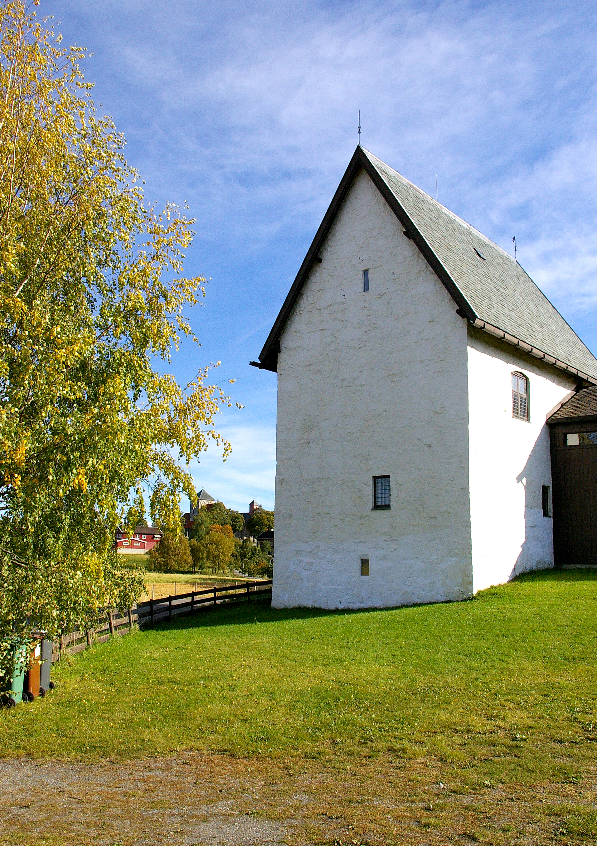 One of the oldest Stone buildings in Norway, still remaining.